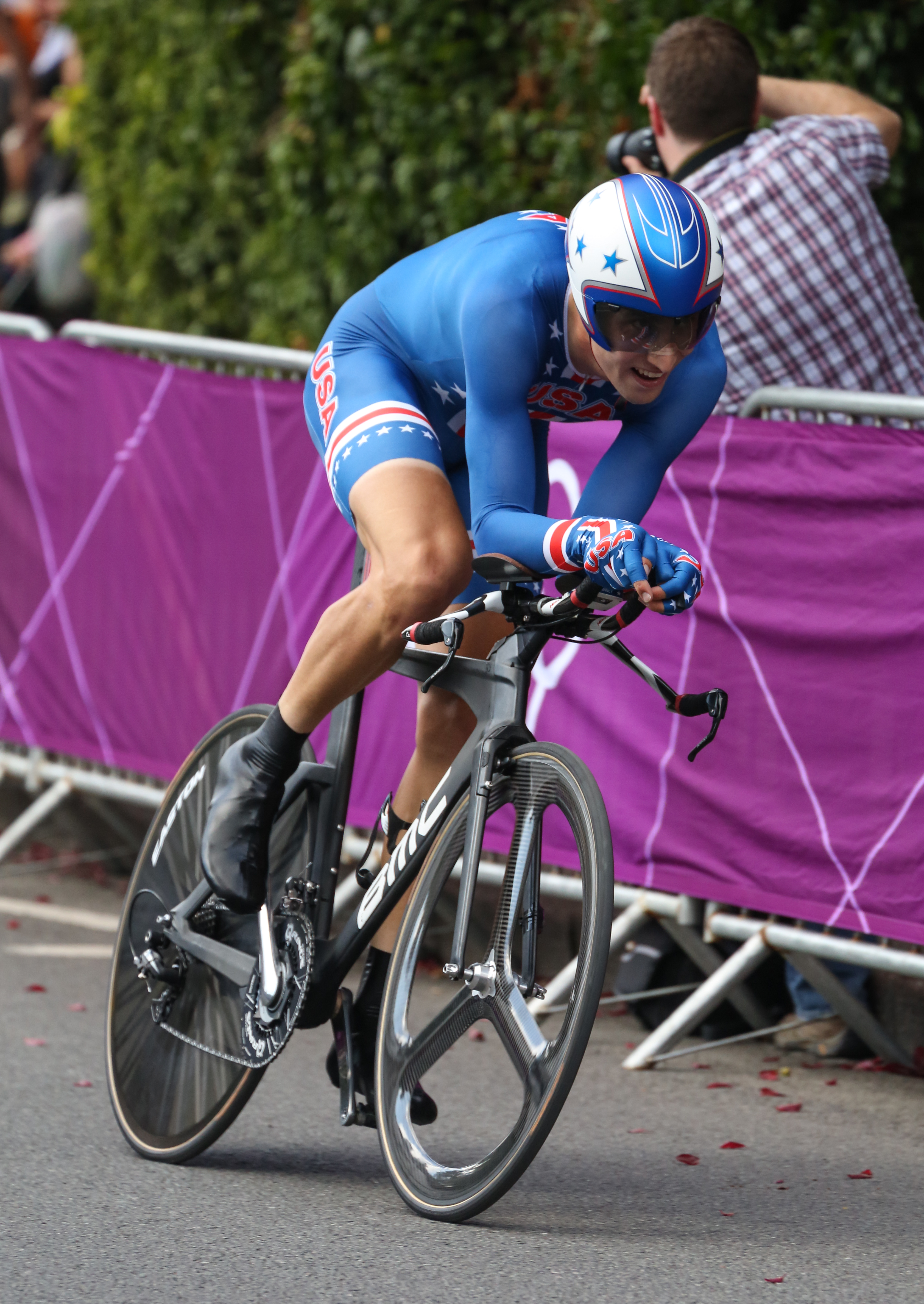 Taylor Phinney competing in the London 2012 Men's Olympic Time Trial.